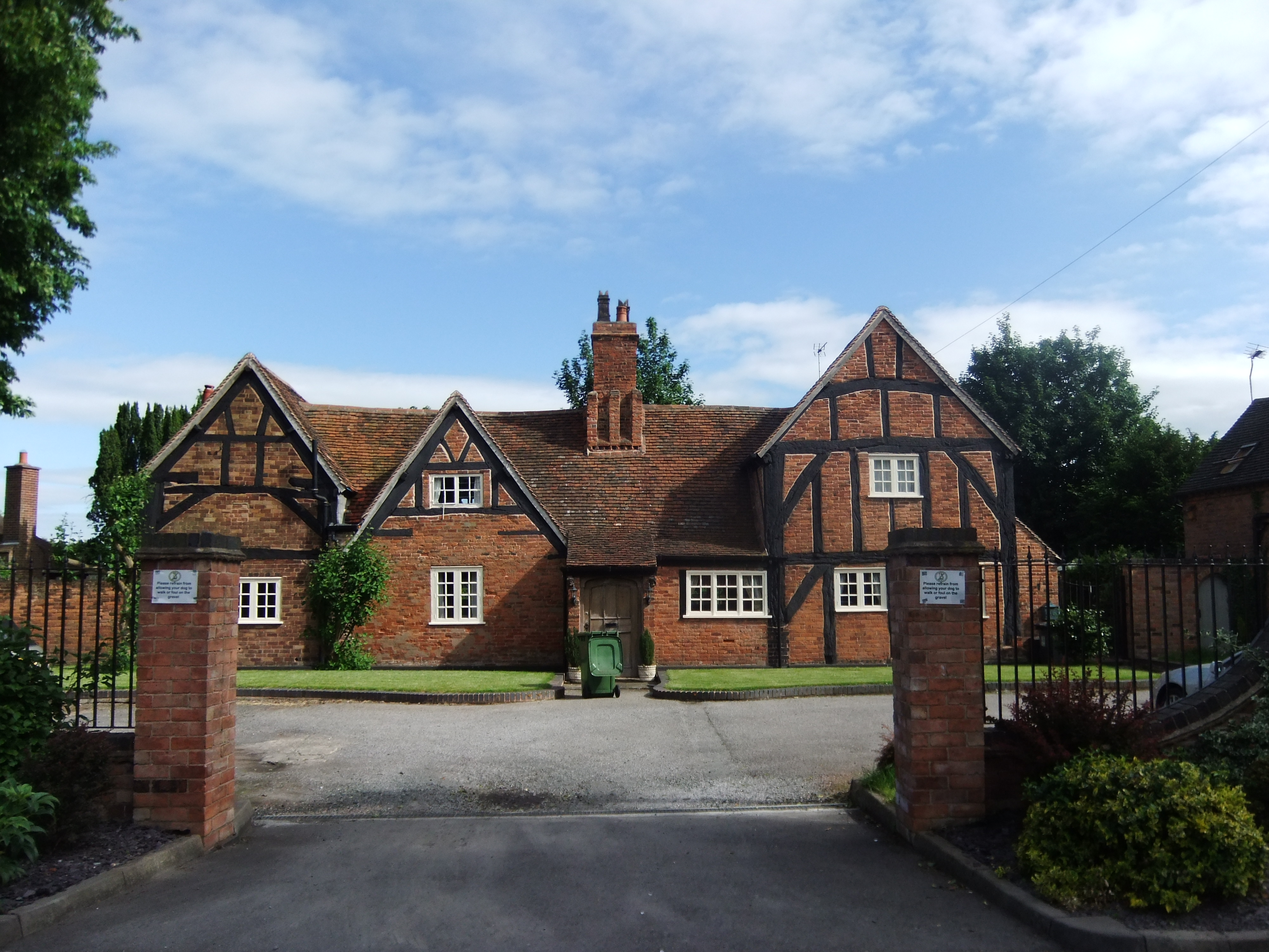 Grade II